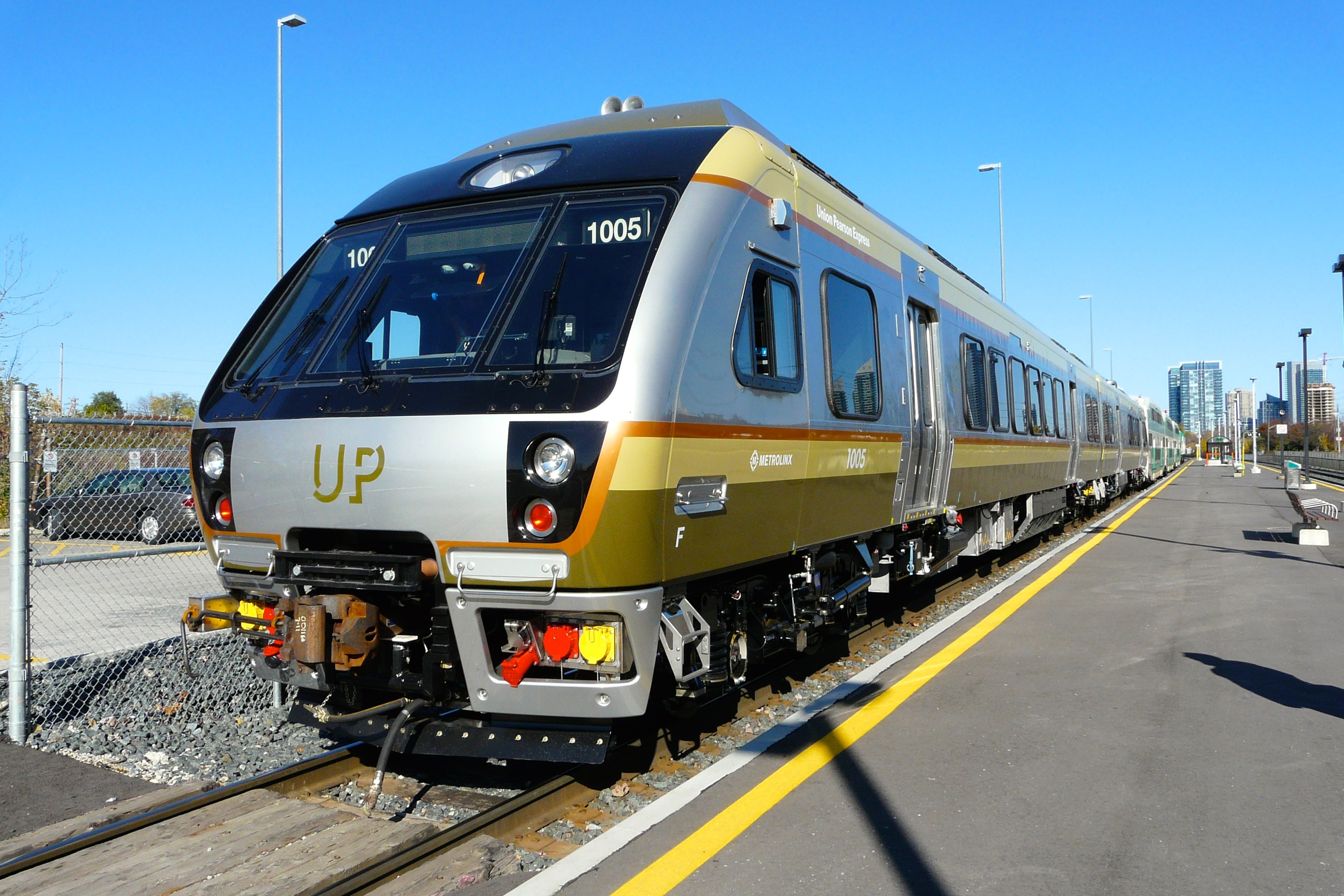 Two Union Pearson Express DMUs at Mimico GO Station on Sunday, November 2, 2014.The units had just arrived in Toronto and were being towed by a GO locomotive.